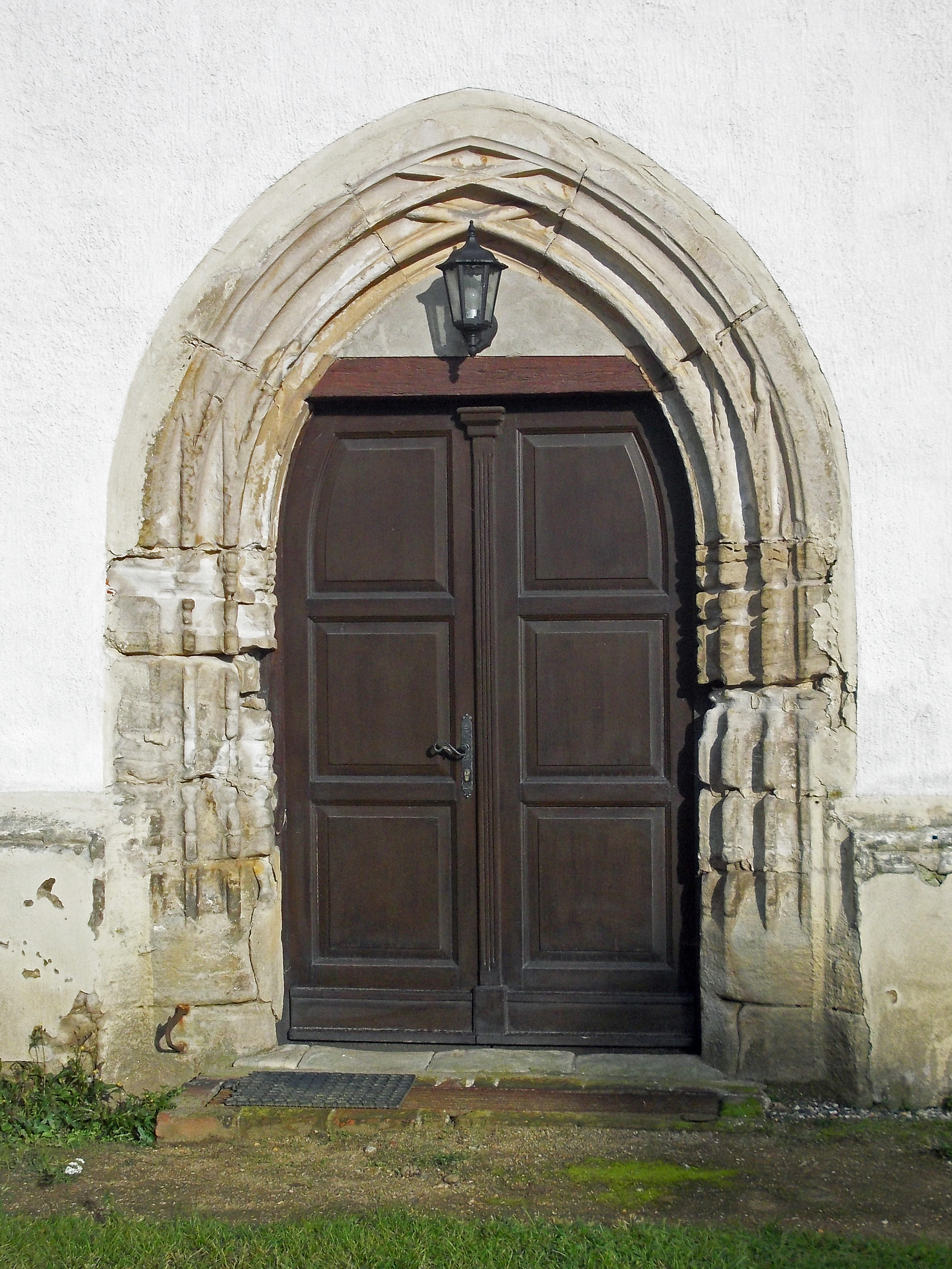 Tellschütz church (Zwenkau, Leipzig district, Saxony)